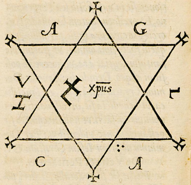 Pentacle from the anonymous grimoire Heptameron attributed to Peter de Abano. Scanned from the 1565 edition.